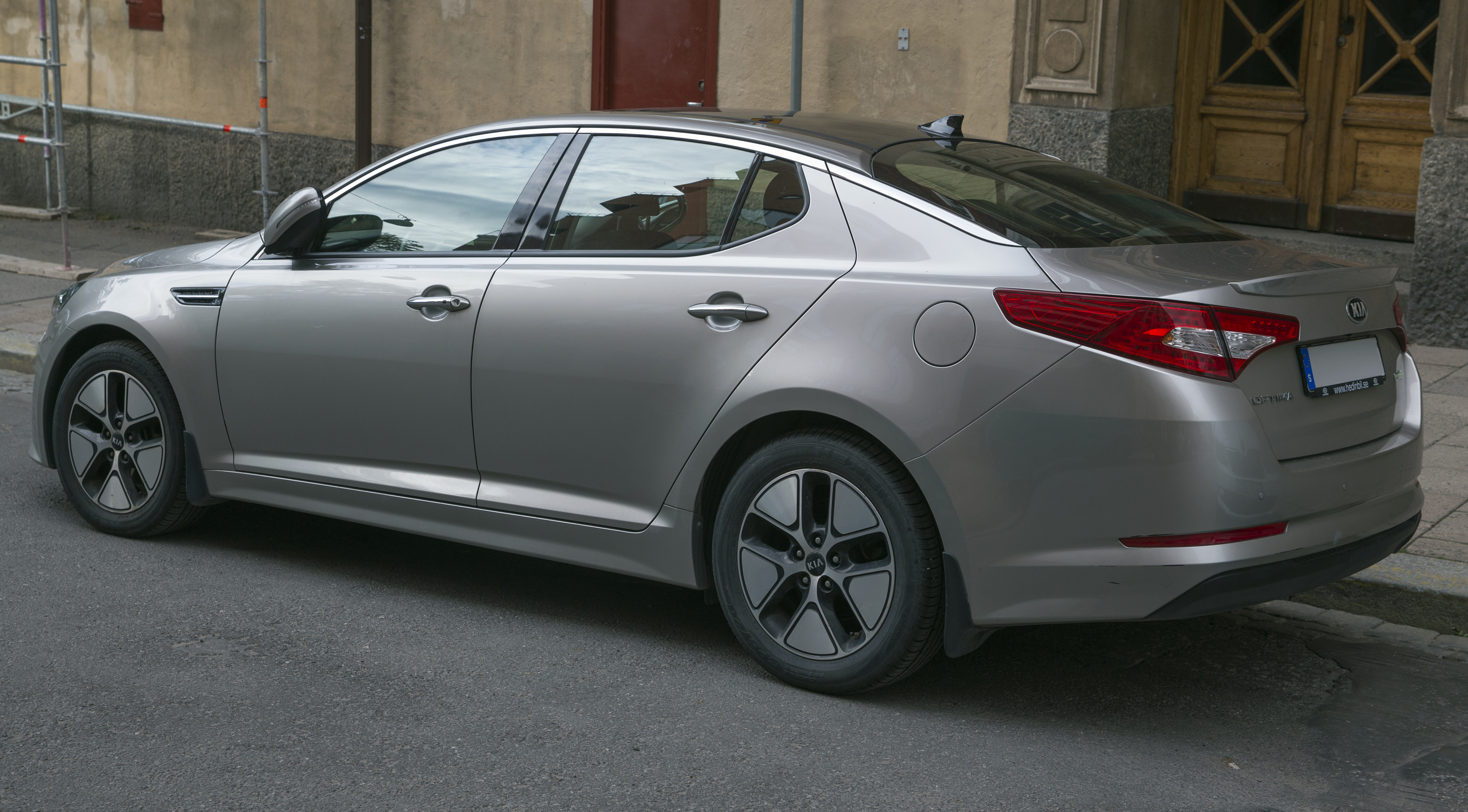 2013 Kia Optima 2.0 Hybrid, Sweden. 1999cc, 110kW, automatic. Three months after this photo it was taken out of traffic, one wonders why.